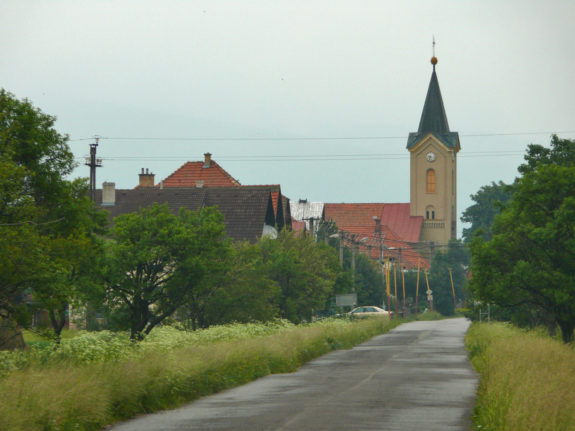 Vavrisovo-village in Liptovsky Mikulas District of northern Slovakia